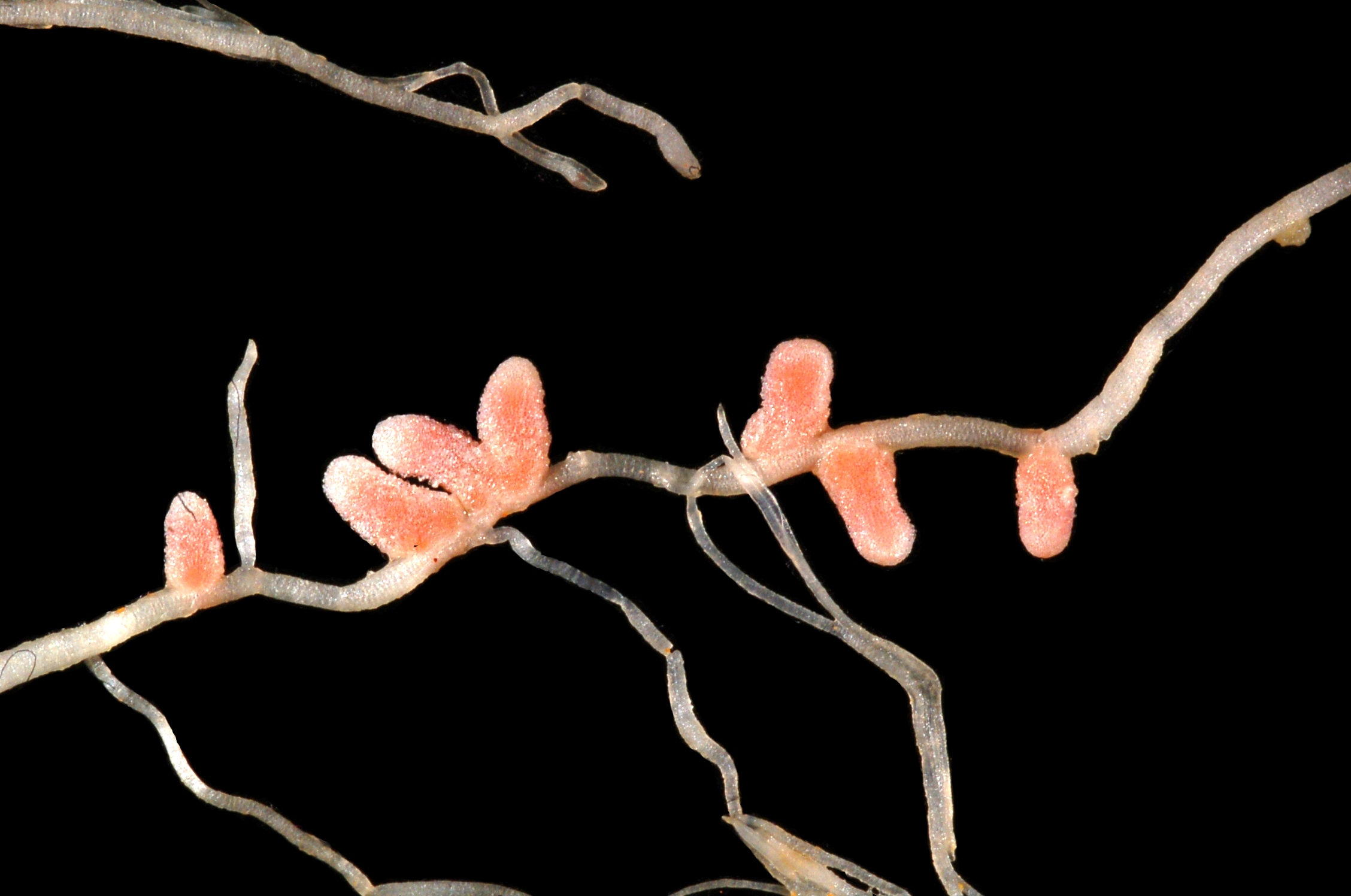 The root nodules of a 4-week-old Medicago italica inoculated with Sinorhizobium meliloti.